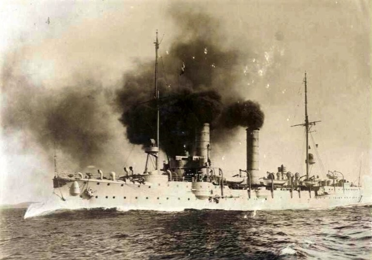 The German light cruiser Undine underway